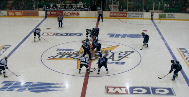 Created by wikipedia user Flibirigit. February 1st, 2006. Belleville, Ontario, Canada.